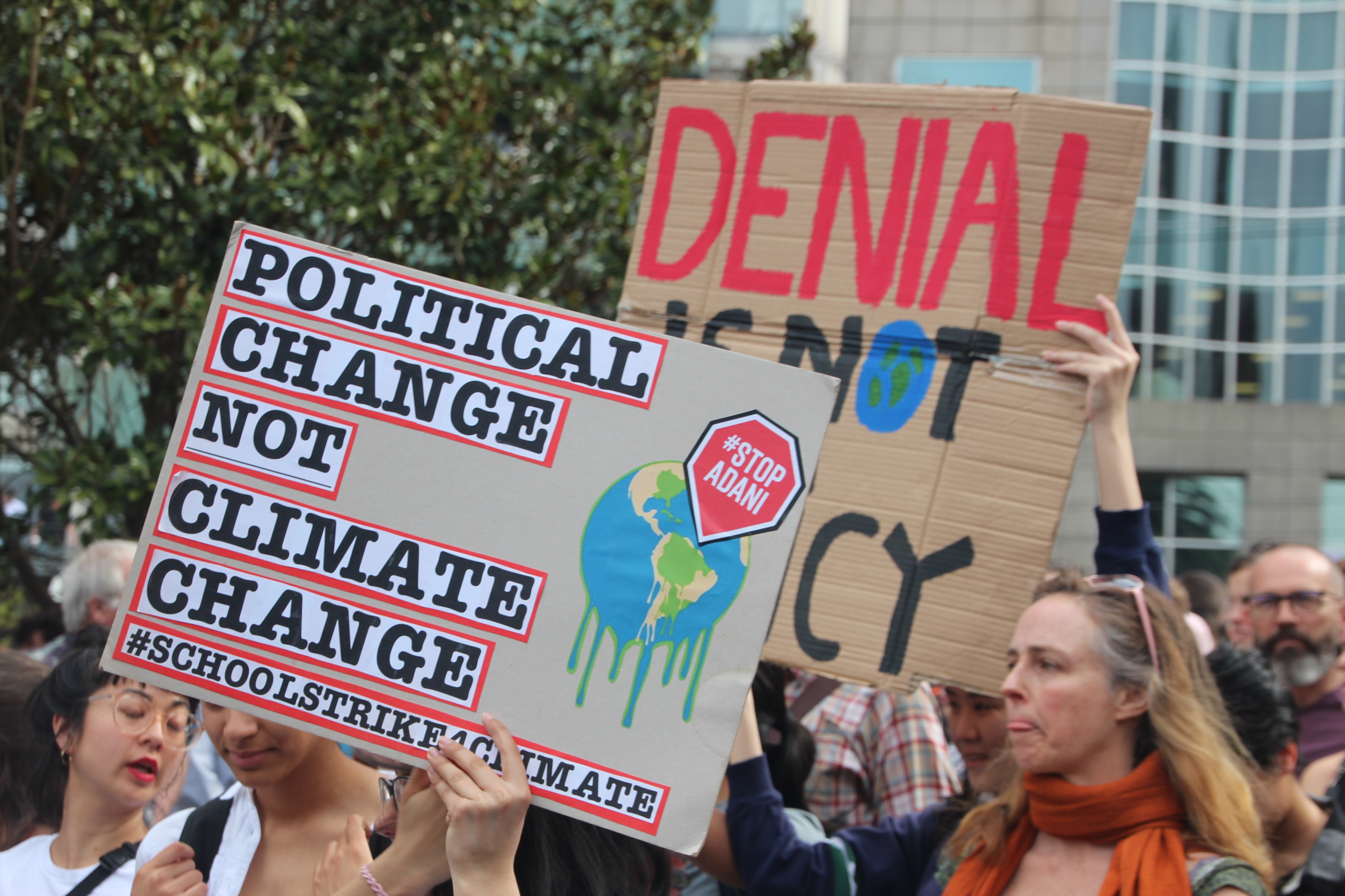 Melbourne Global climate strike on Sep 20, 2019 had well over 100,000 people attending in Treasury Gardens and a 1.2km march through the streets of Melbourne, being the largest climate protest in Australia to date, and rivalling the anti-war protests in 2003 and the Vietnam Moratorium in 1970.